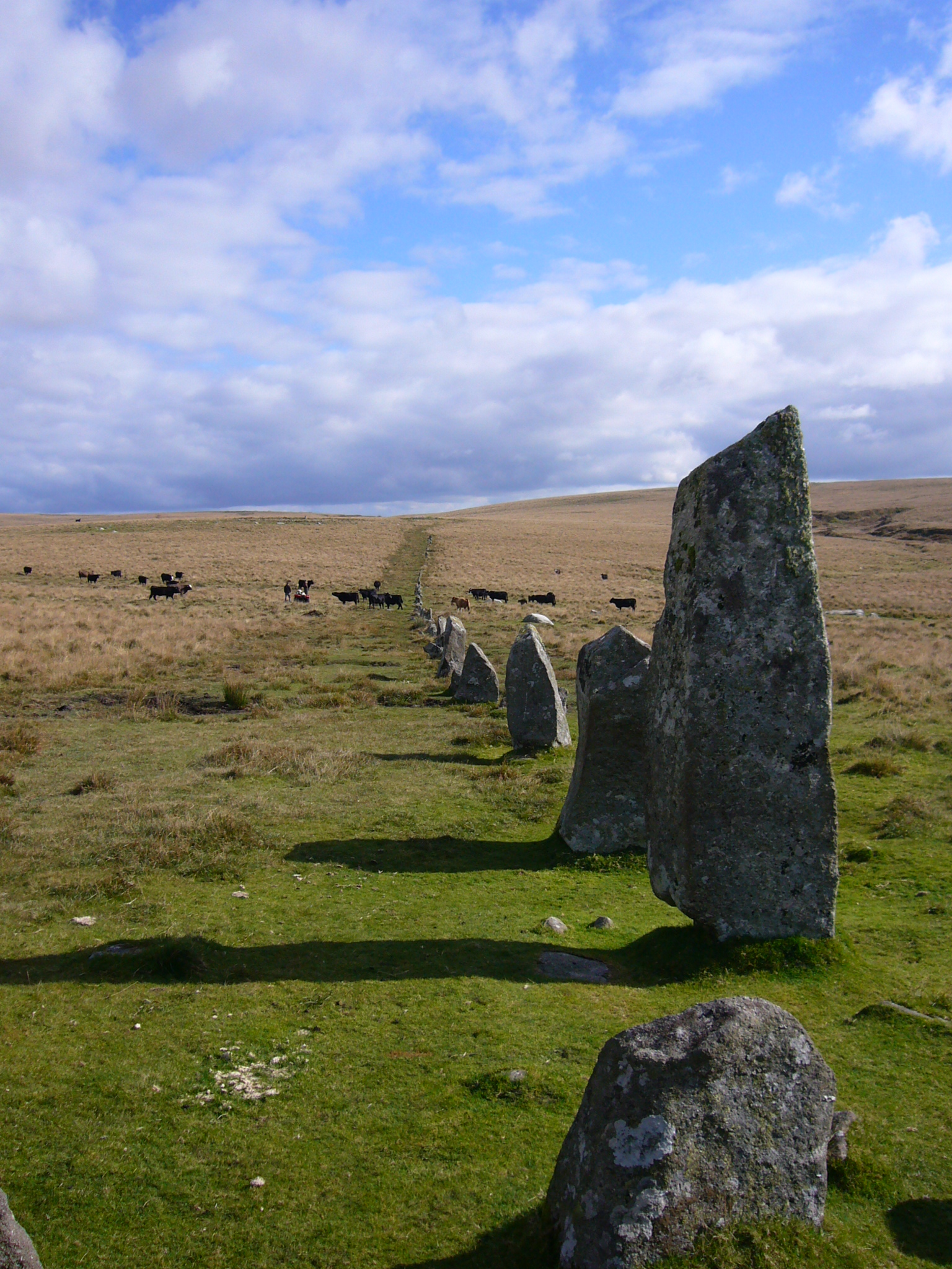 Down Tor stone row on Dartmoor in South Devon, UK.